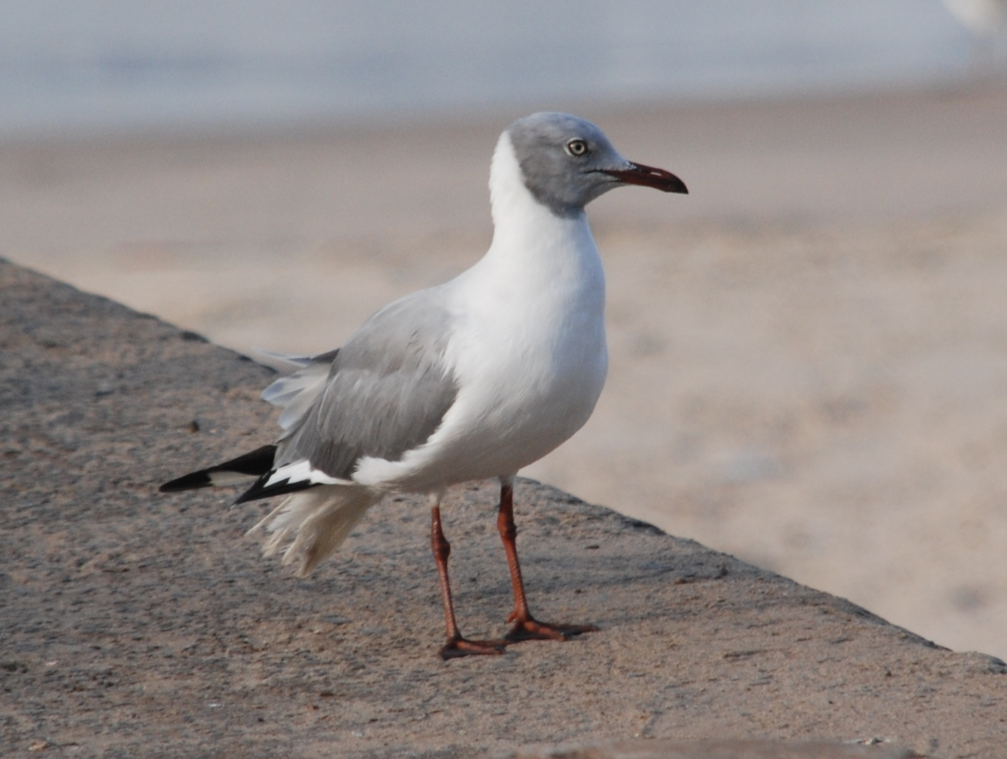 Grey-headed Gull, Chroicocephalus cirrocephalus (formerly Larus cirrocephalus). José M. Gómez, Bakau (Gambia), 22 December 2007